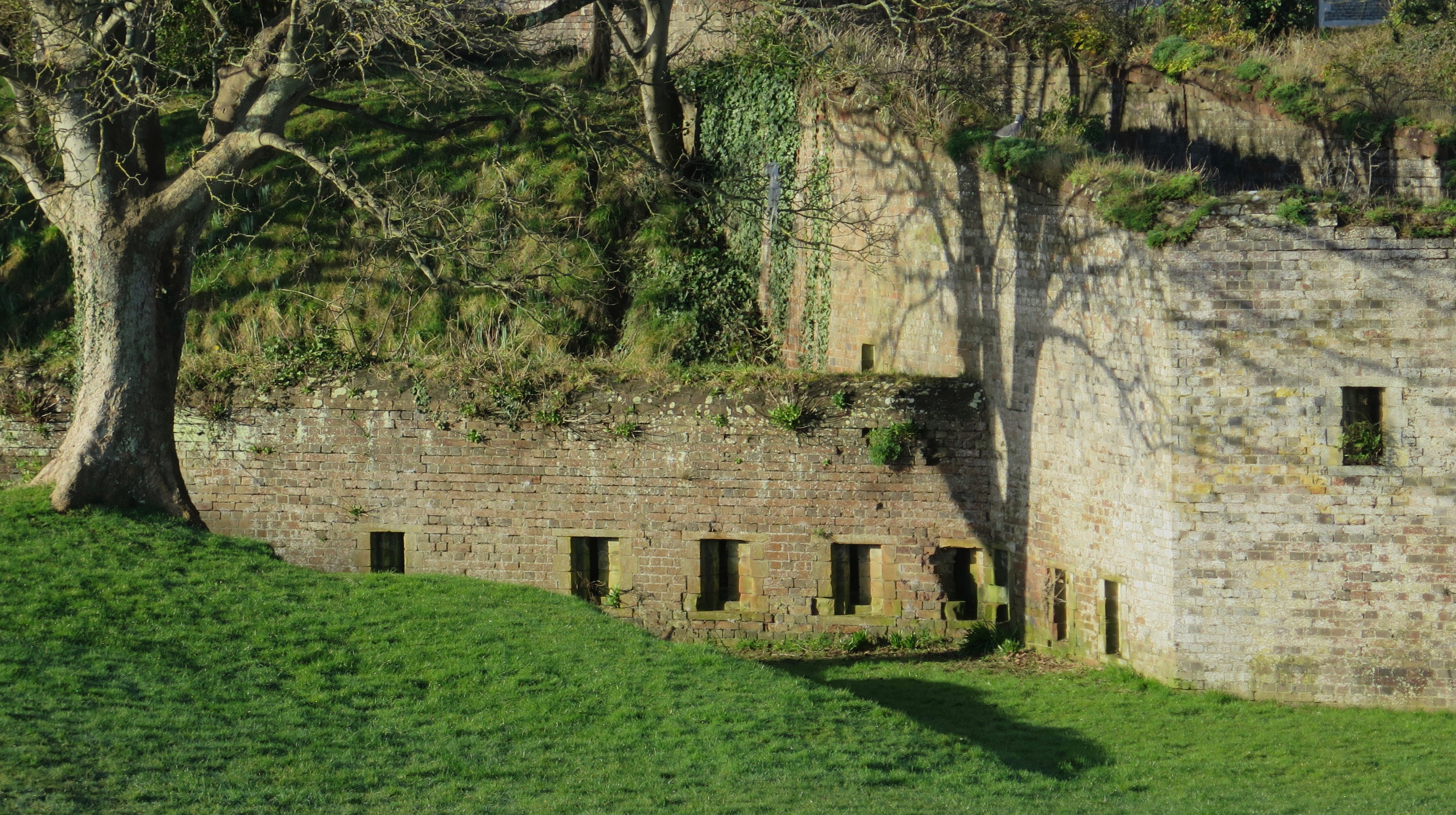 One of the Isle of Wight's Palmerston Forts, situated on the clifftop in the centre of Sandown Bay and built between 1861 and 1863. It has been a scheduled heritage monument since 2000.